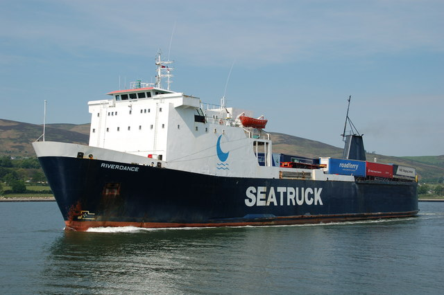 MS "Riverdance" departing Warrenpoint. Aubrey Dale writes "Warrenpoint has a busy commercial harbour in a scenic setting. The ferry “Riverdance” is departing on her freight-only run to Heysham. The photograph was taken from the promenade and shows how close the ships are to the shore." IMO number : 7635361 Call Sign : C6CG3 Gross tonnage : 6041 Type of ship : Ro-Ro Cargo Ship Year of build : 1977